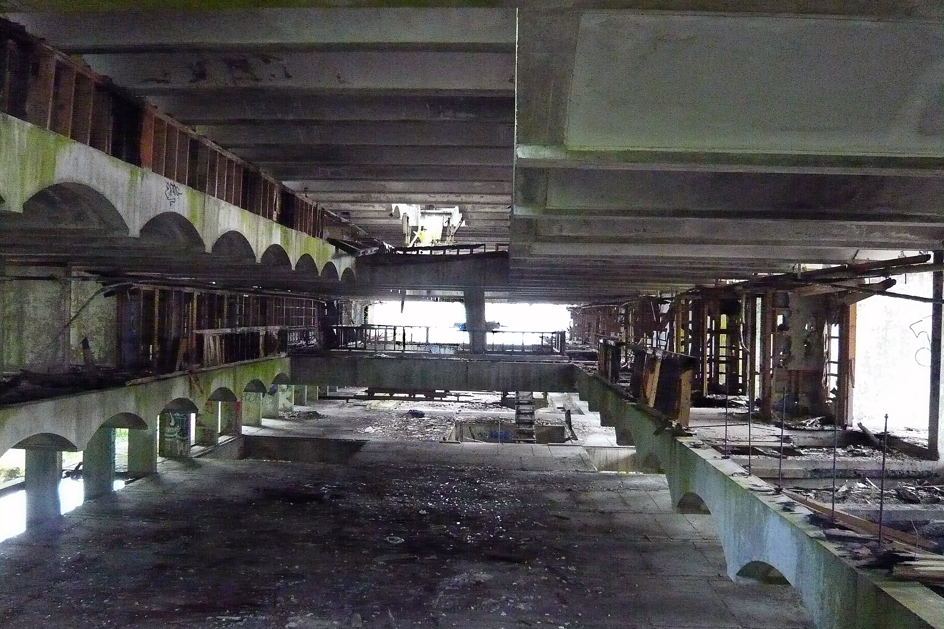 Part of a collection of own work photographs of St Peter's Seminray in Cardross, taken June 2010.